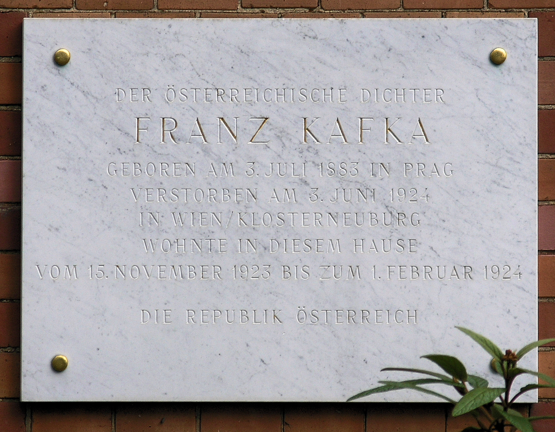 Memorial plaque, Franz Kafka, Grunewaldstraße 13, Berlin-Steglitz, Germany